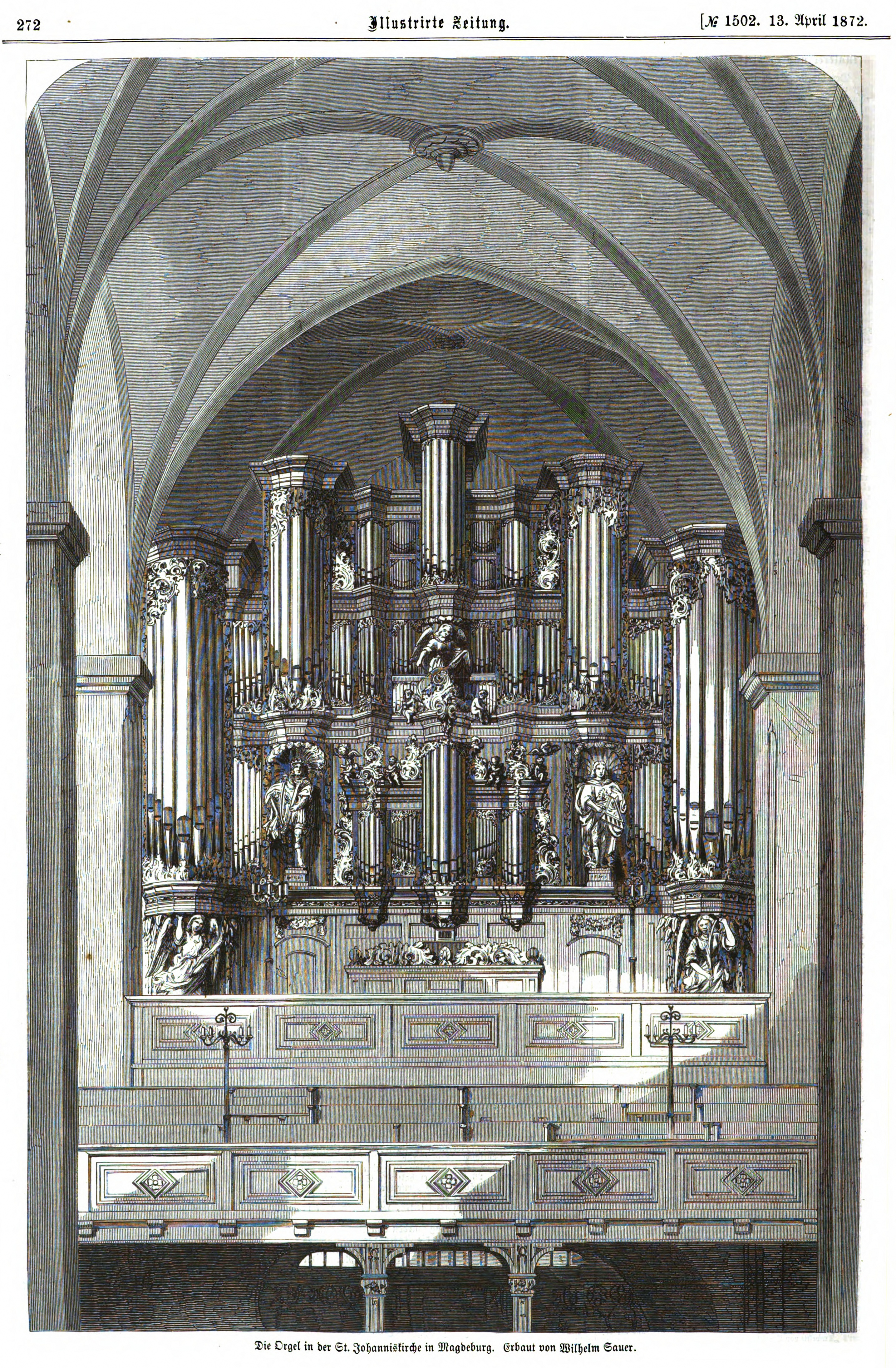 The organ in the Sankt-Johanniskirche in Magdeburg was built by Wilhelm Sauer's company and finished in September 1870. The Illustrirte Zeitung had an article about the organ and Sauer on page 271-273 of its April 13, 1872 edition.